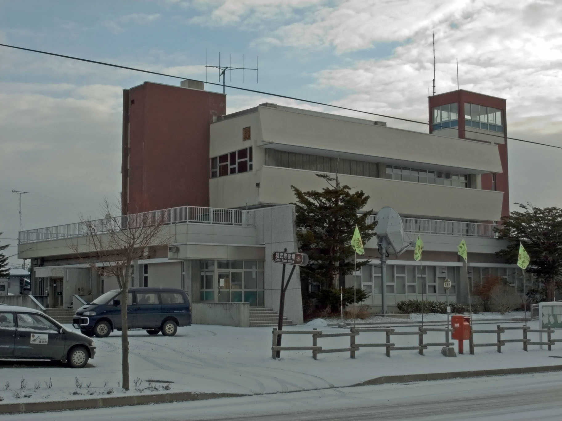 Omu town hall, Omu, Hokkaido, Japan